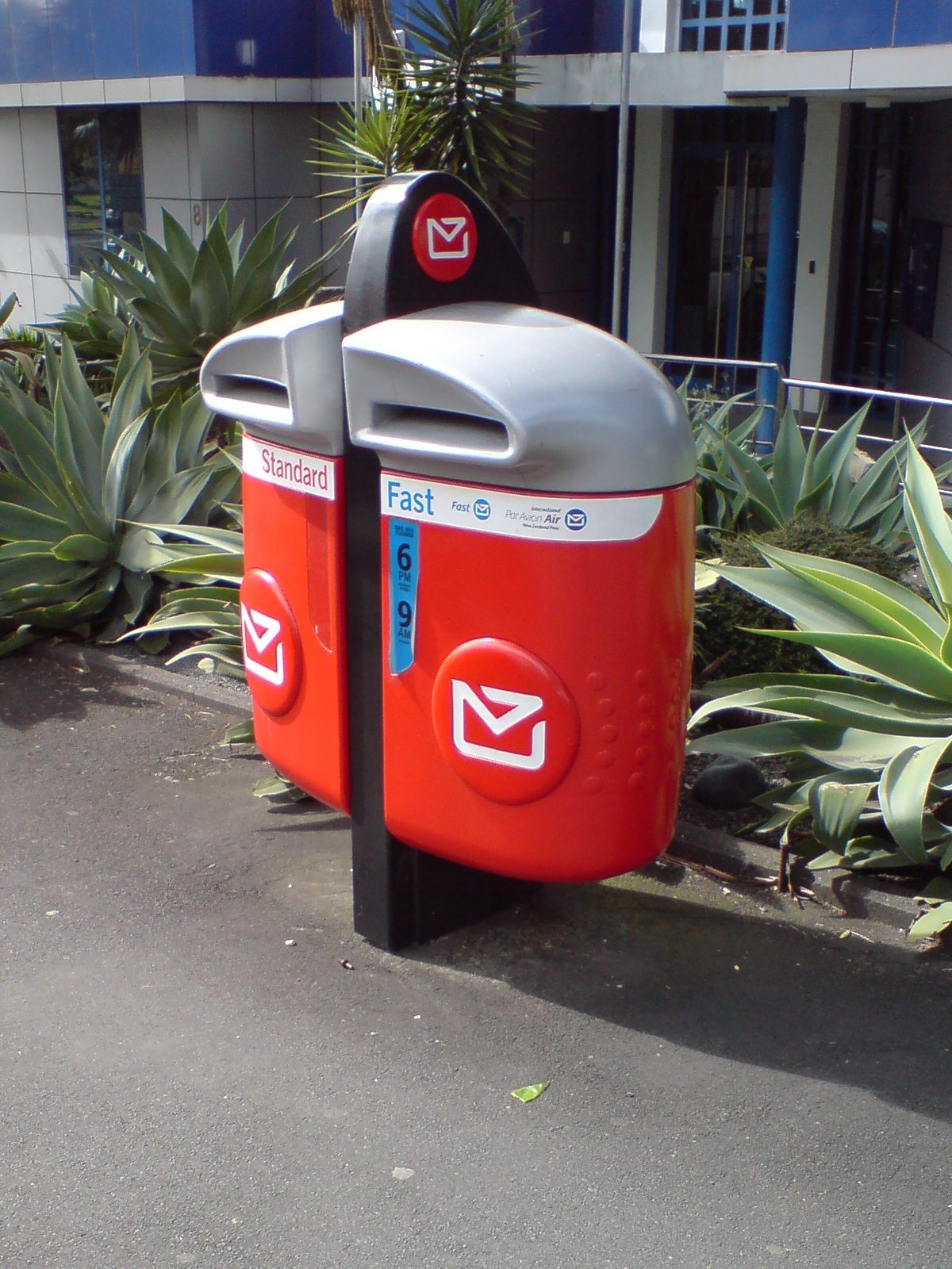 A modern version of the typical dual New Zealand Post mailbox as found on College Hill (a street) in Auckland City.